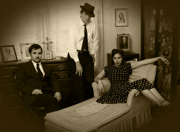 Members of the band UNA